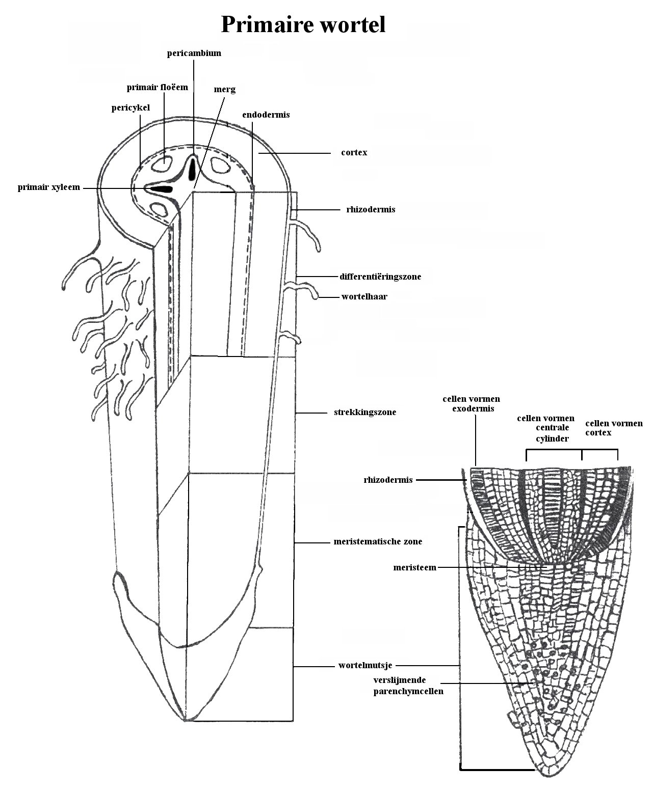 Anatomy roots in Dutch